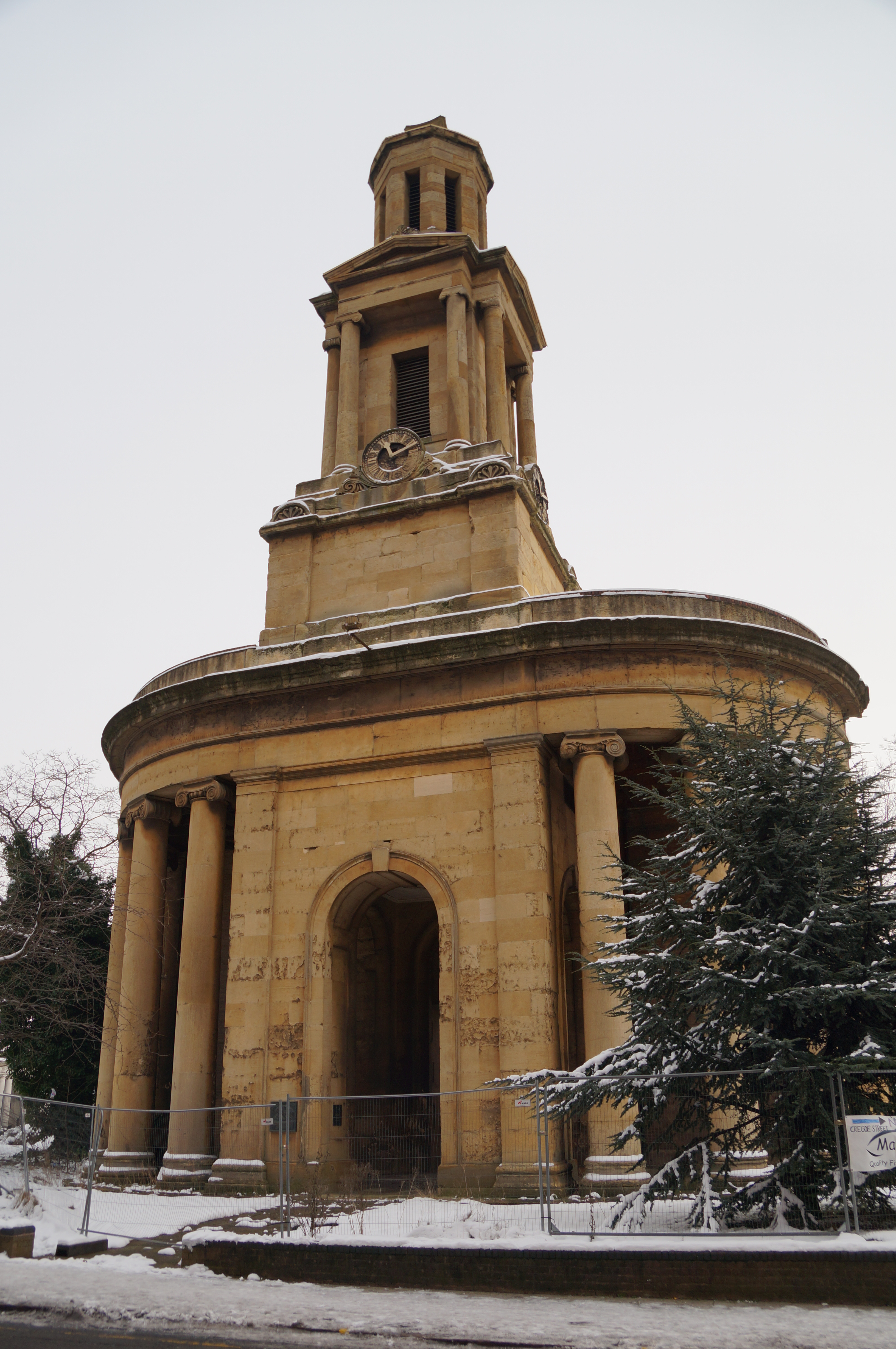 The tower of the war-damaged St Thomas church in St. Thomas' Peace Garden, Birmingham, England.